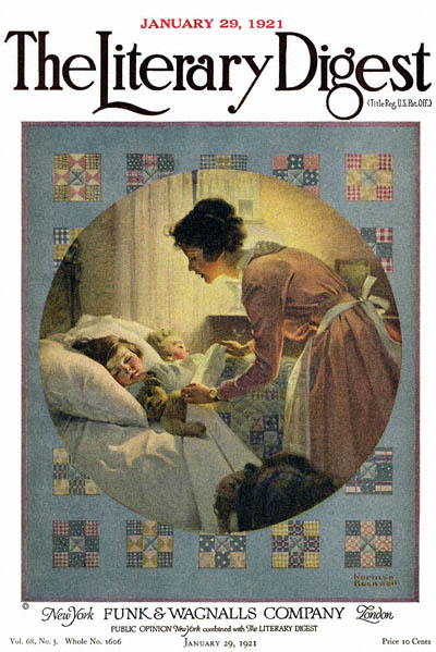 Norman Rockwell's Mother Tucking Children in Bed,appeared on the cover of The Literary Digest published 20-Jan-1921. Read more